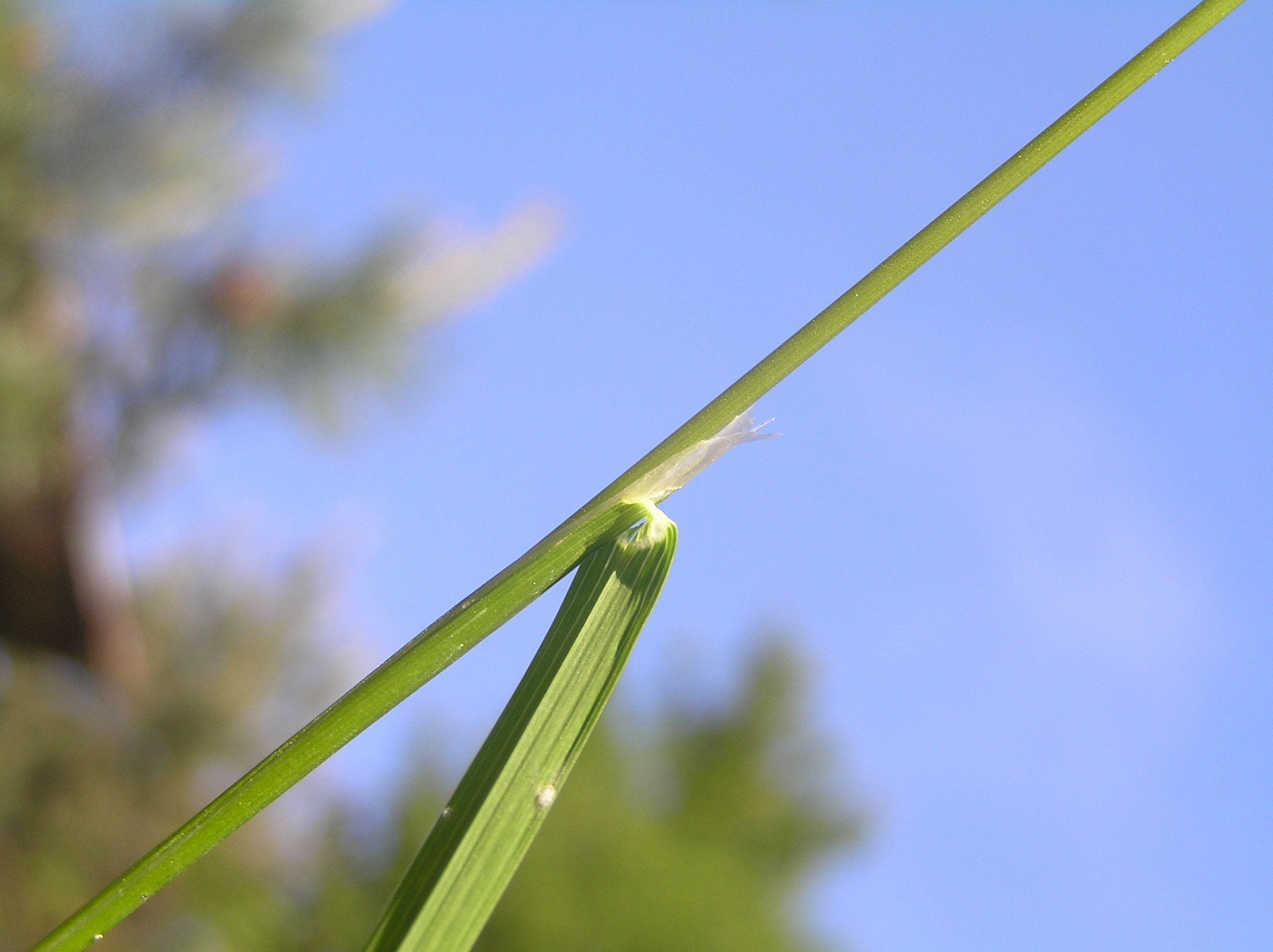 Poa trivialis, Choceň, Czech republic